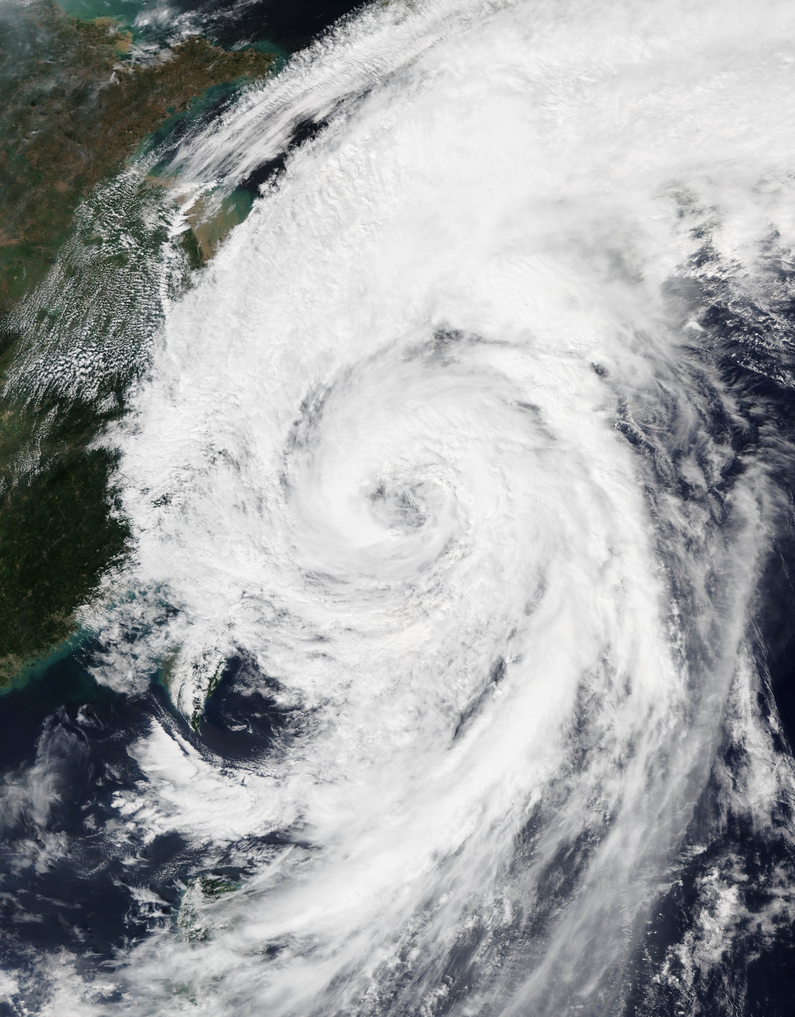 Typhoon Tapah at its peak intensity in the East China Sea on September 21, 2019